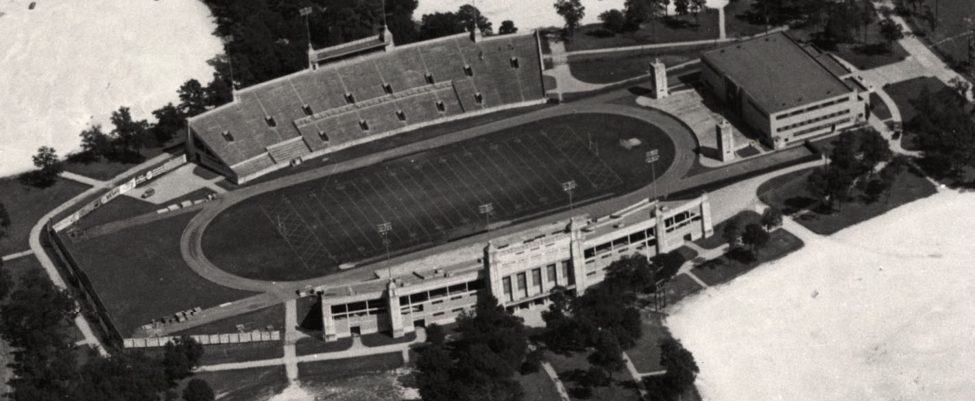 An aerial view of Robertson Stadium (then known as "Public School Stadium") in 1950